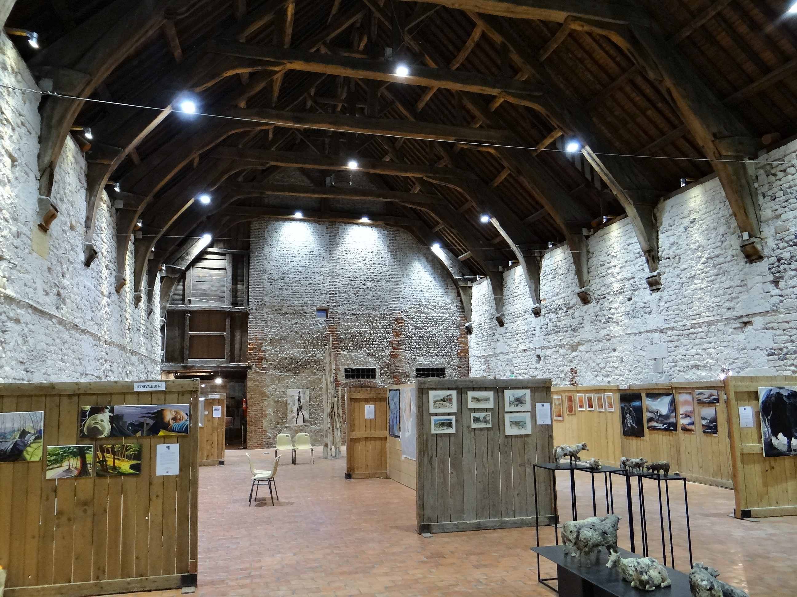 salt loft, Honfleur